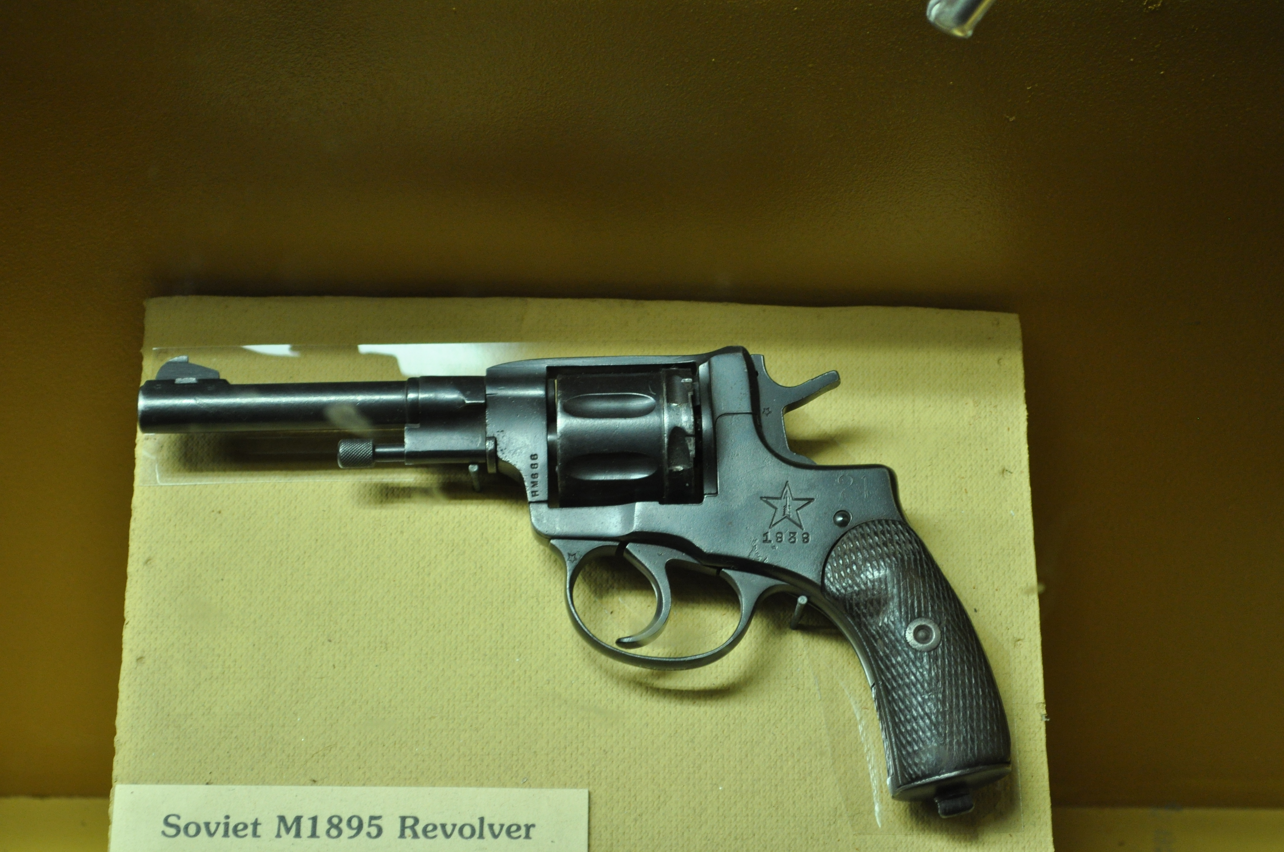 Soviet M1895 revolver, Fort Lewis Military Museum, Fort Lewis, Washington, USA. Part of a display of the weapons of the Korean War.